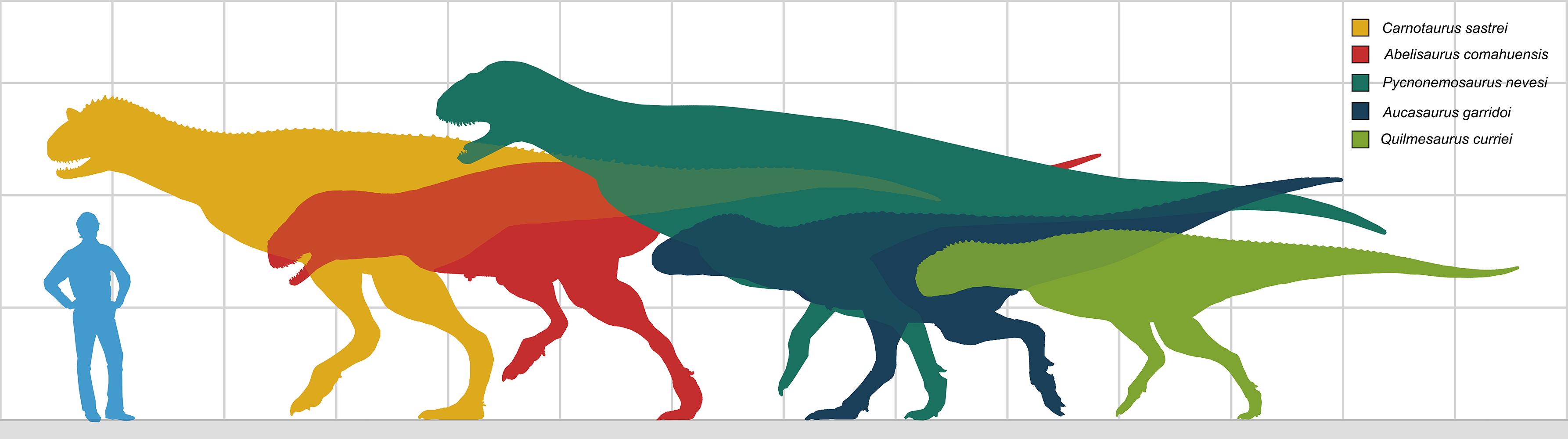 Size comparison of the Carnotaurins (left to right) Carnotaurus, Abelisaurus, Pycnonemosaurus, Aucasaurus and Quilmesaurus. Silhouette sources: Carnotaurus: Abelisaurus: Pycnonemosaurus: Aucasaurus: Quilmesaurus